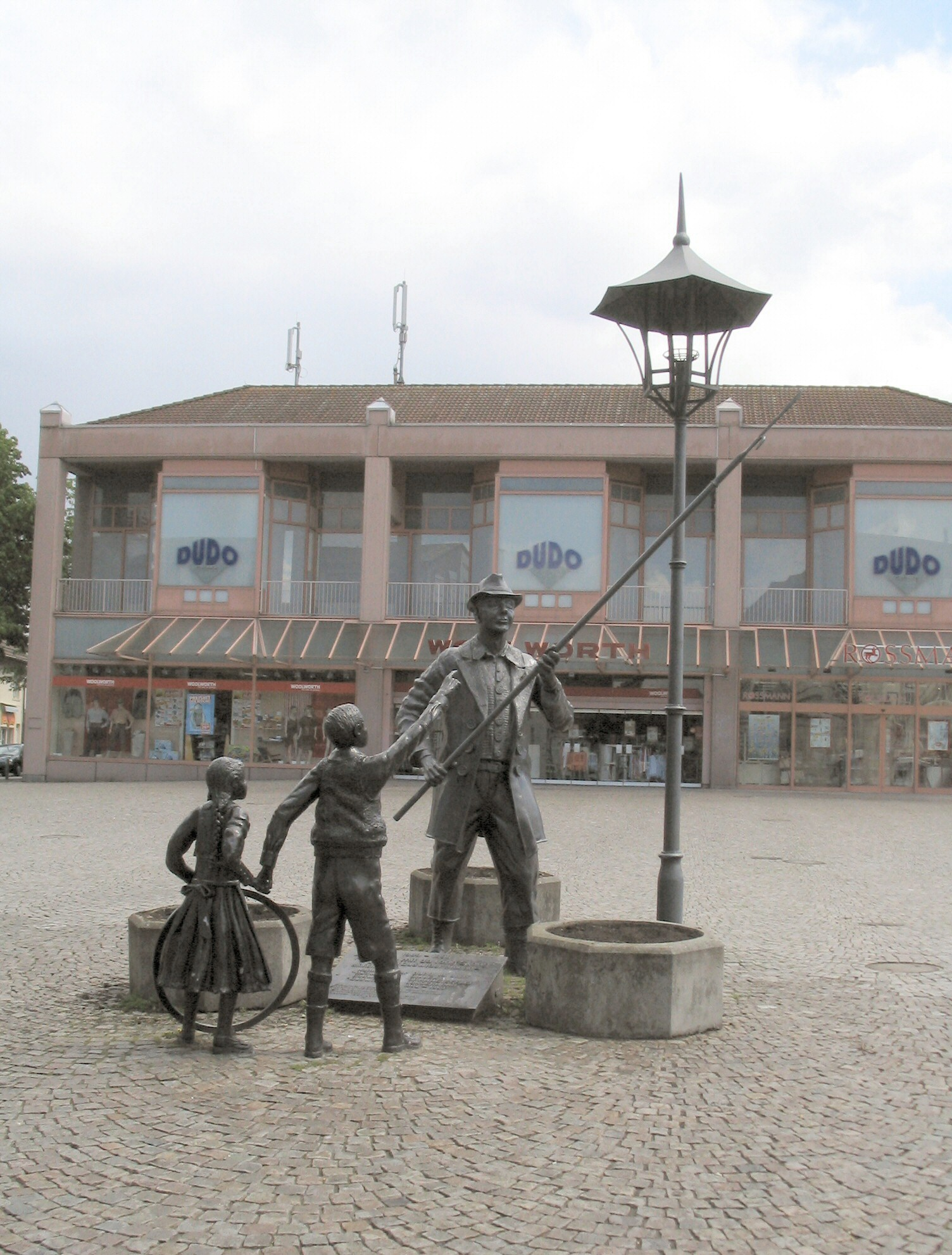 Description: The monument De Monn mit da long Stong by Zoltan Hencze in Dudweiler (Saarbrücken/Germany). Photographer: kh80 Date: 2005-05-08 License: GFDL and cc-by-sa/2.0/de